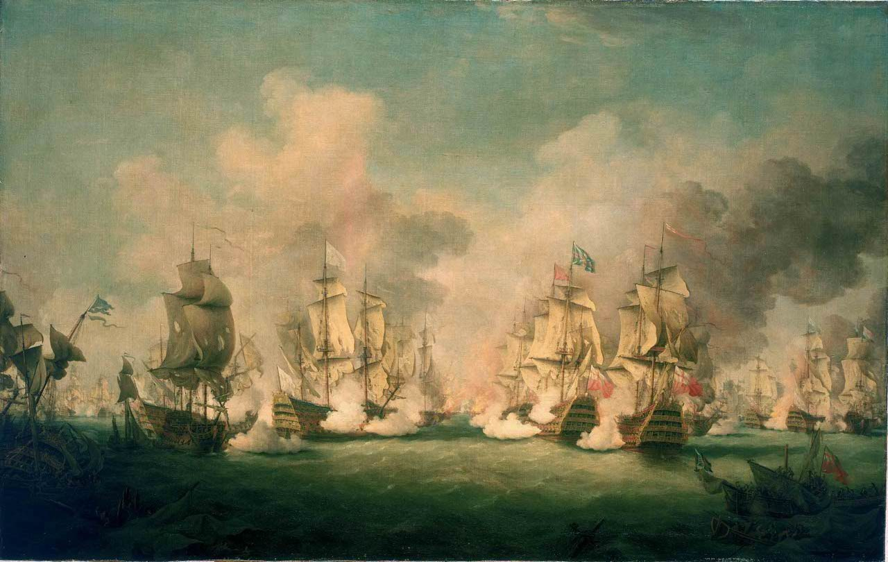 On the left, is the 'Soleil Royal', in starboard-quarter view, the chief focal point. She's engaged on her right with 'Britannia', 100 guns, port-quarter view, preceded by 'London', 96 guns, followed by 'St Andrew', 96 guns. In the left in the background, the 'Royal William', 100 guns, is in close action with a French flagship. In left foreground, a French two-decker is sinking, stern on, with her crew transferring to a small boat under her stern. In right foreground a small dismasted English ketchd and the wreck of another ship is on the right in the foreground.